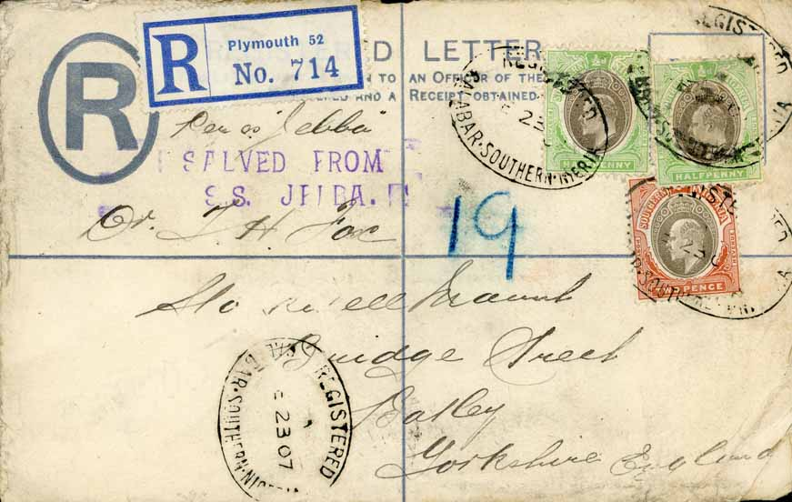 Registered letter from Old Calabar, Southern Nigeria, salvaged from the S.S. Jebba.